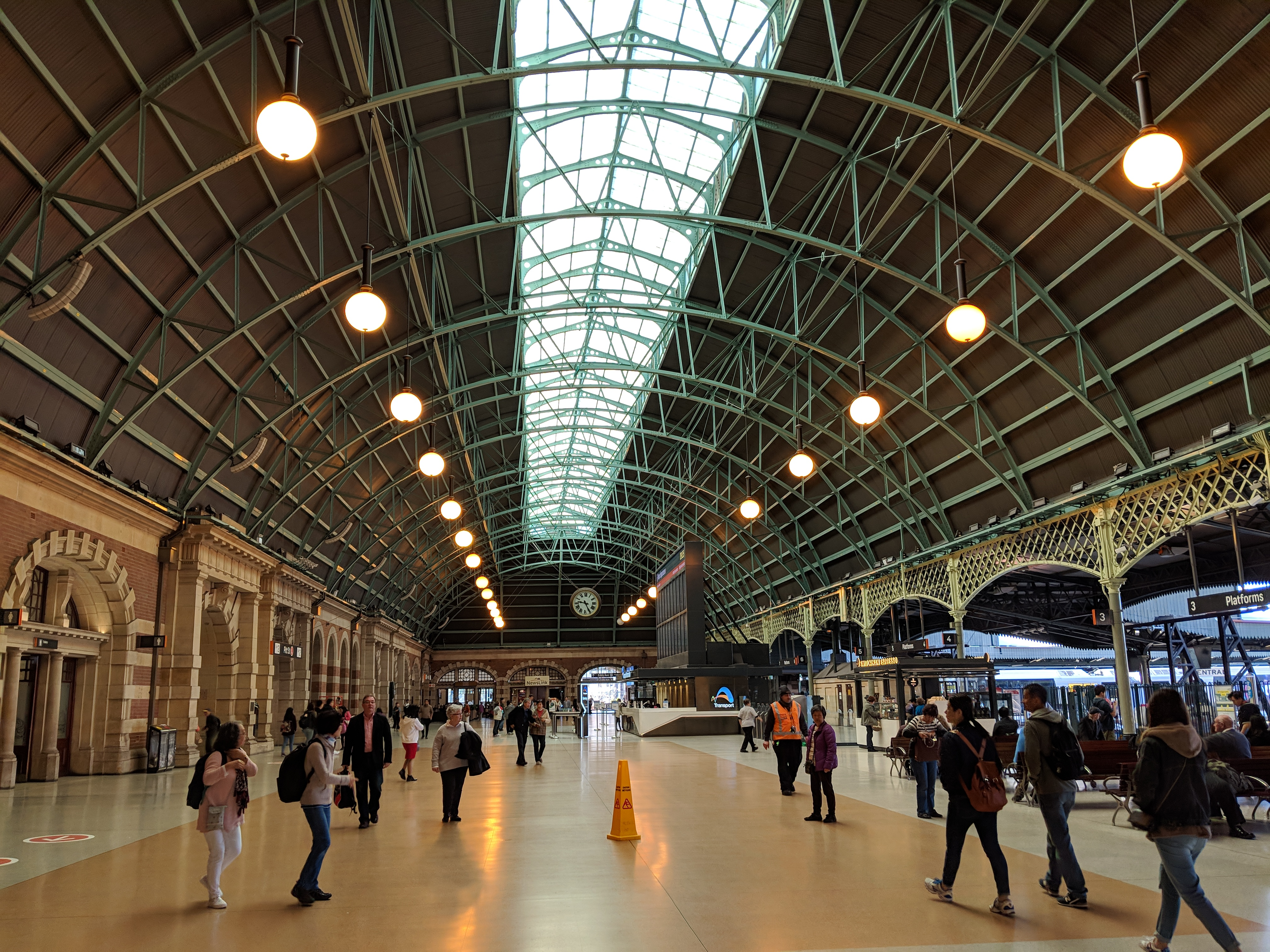 Central Station Concourse Hall